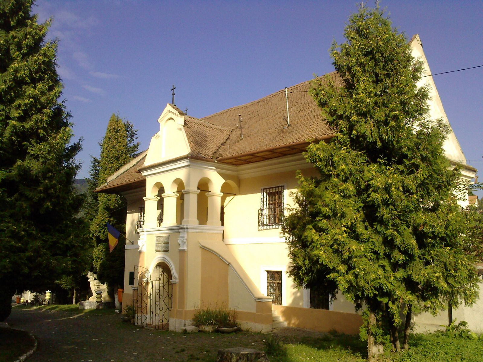 The first Romanian school in Braşov, Schei 02